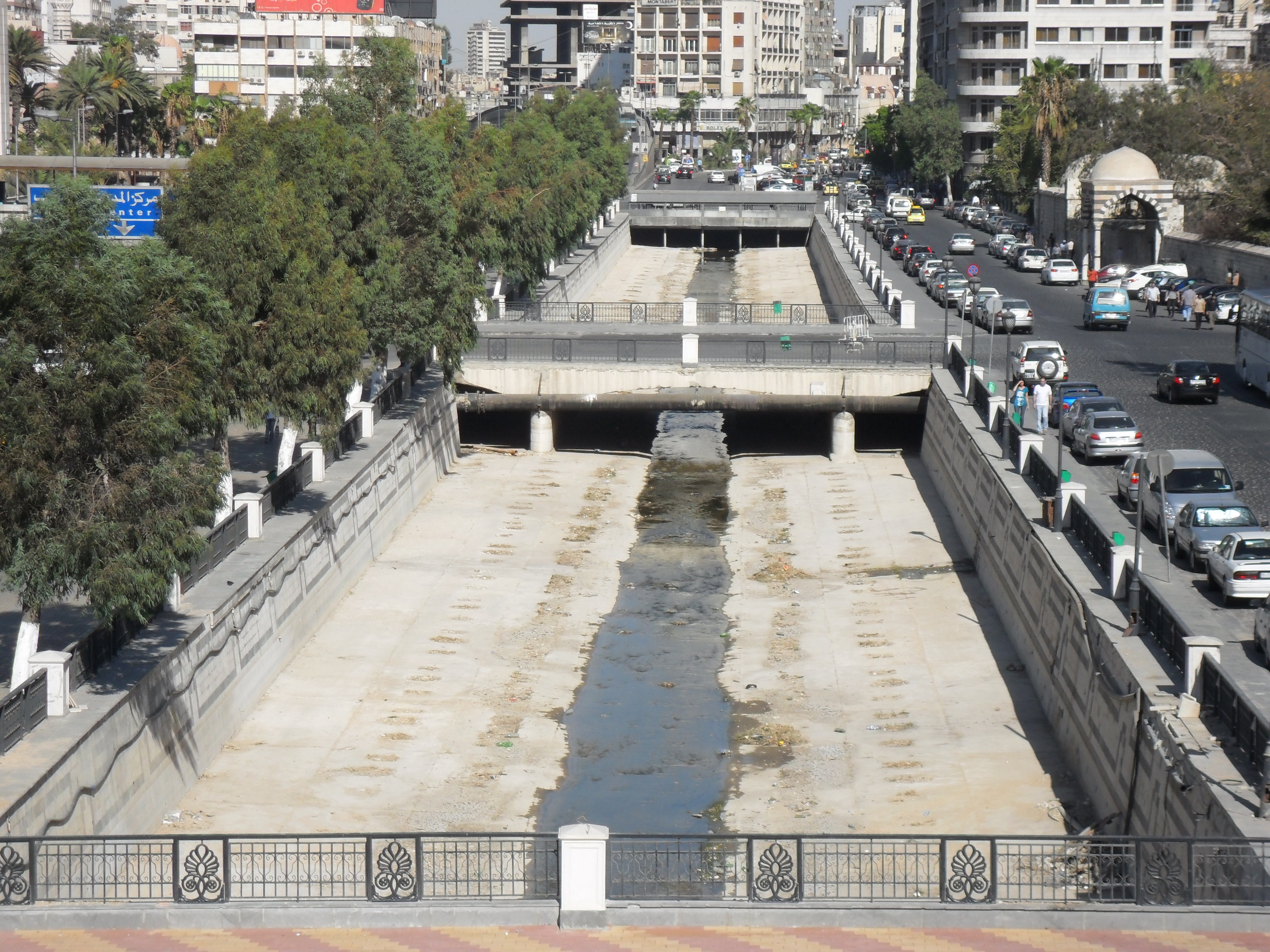 Barada River in Damascus almost totally desiccated in August 2010; the picture was taken from the top of President's Bridge; the Four Seasons Hotel would be on the left, the Damascus National Museum on the right of the banks.